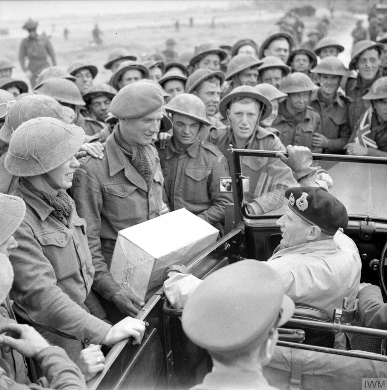 The British Army in Normandy 1944 General Montgomery stops his car to chat to troops during a tour of 1st Corps area near Caen, 11 July 1944.